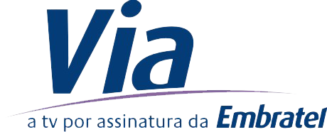 This is the logo of Via Embratel.